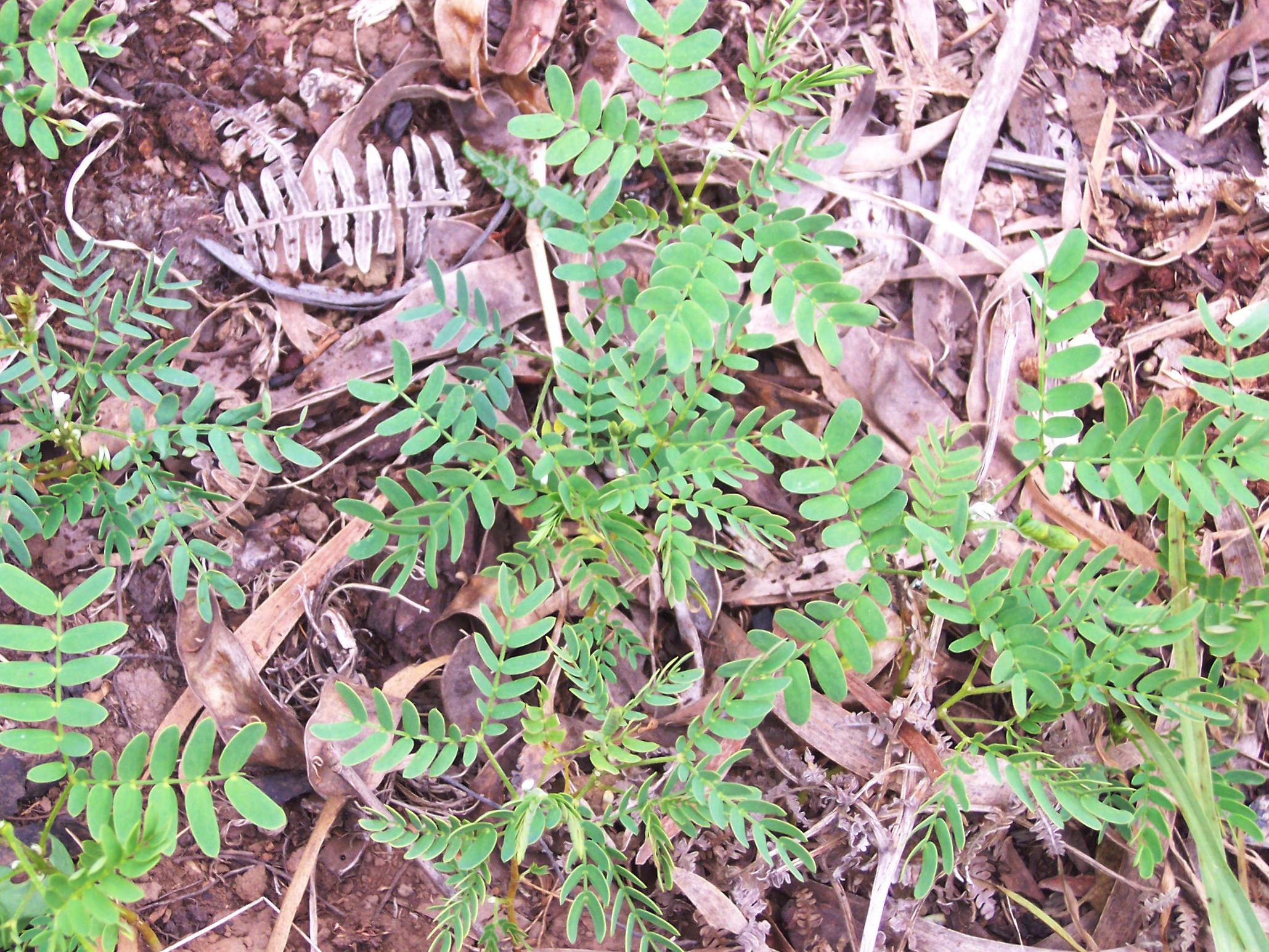 Acacia heterophylla young seedlings in Hauts-sous-le-Vent forest, on Réunion island